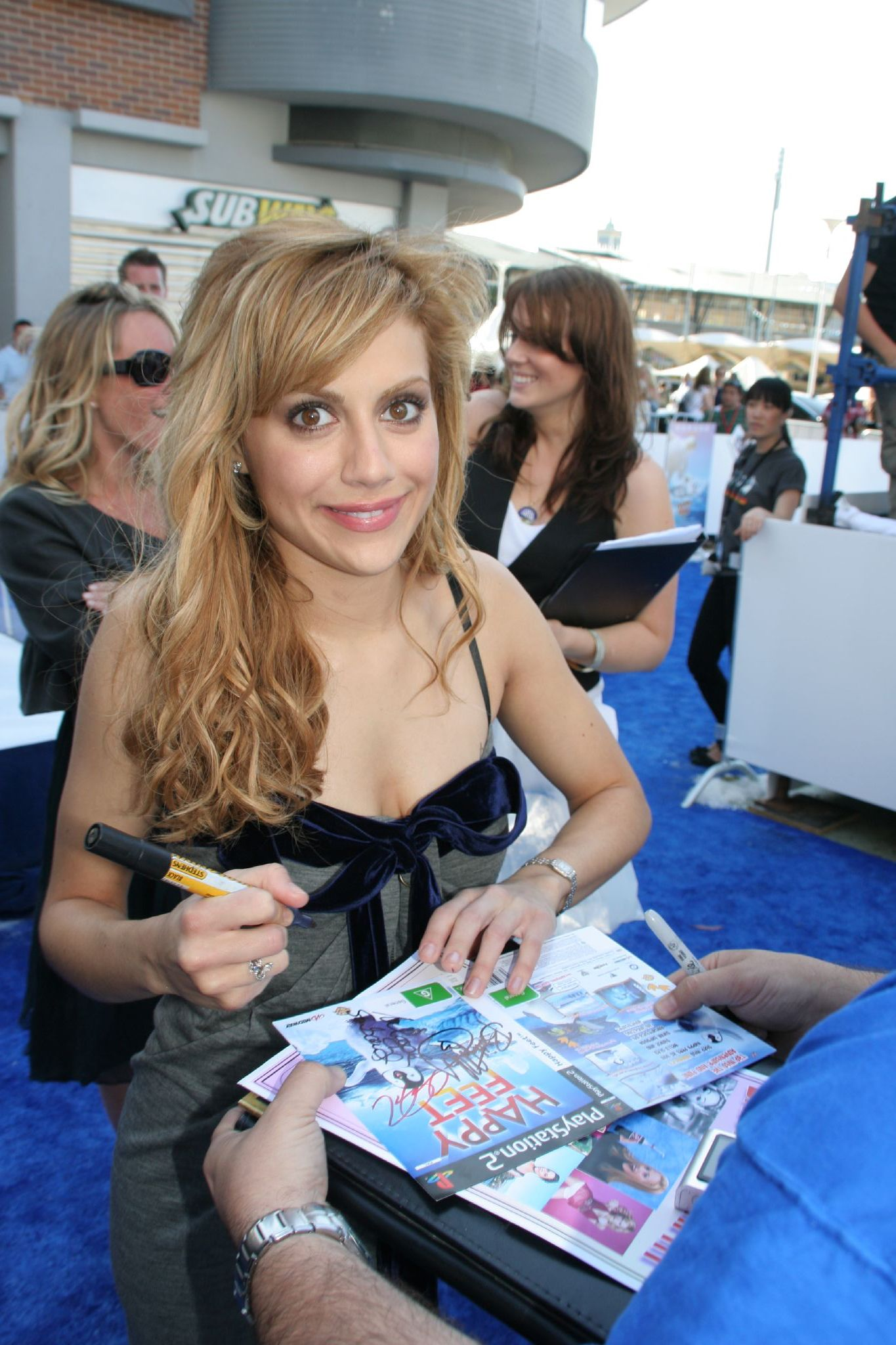 Australian Premier of Happy Feet, Fox Studio, Sydney